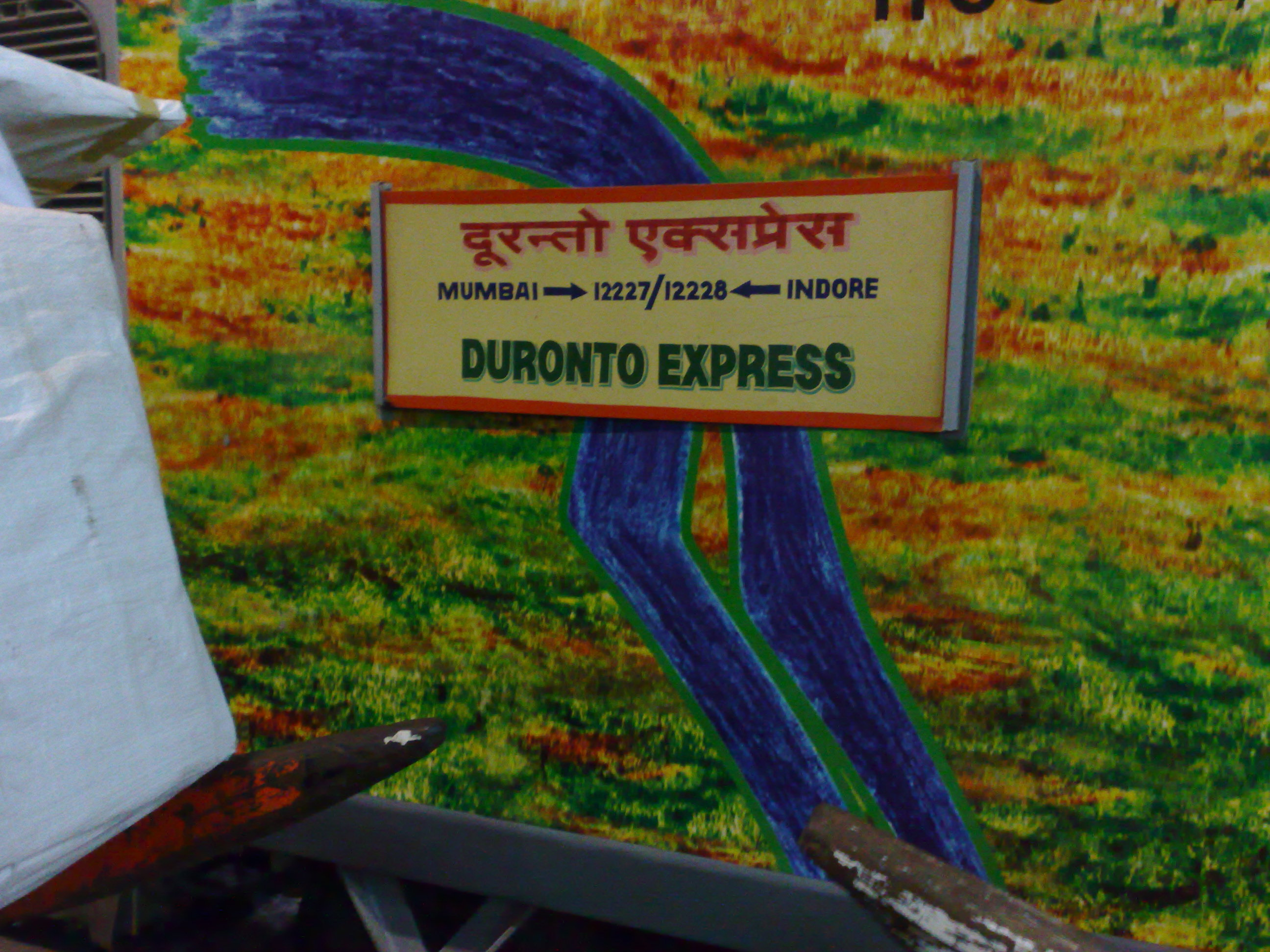 12227 Indore Duronto Express trainboard